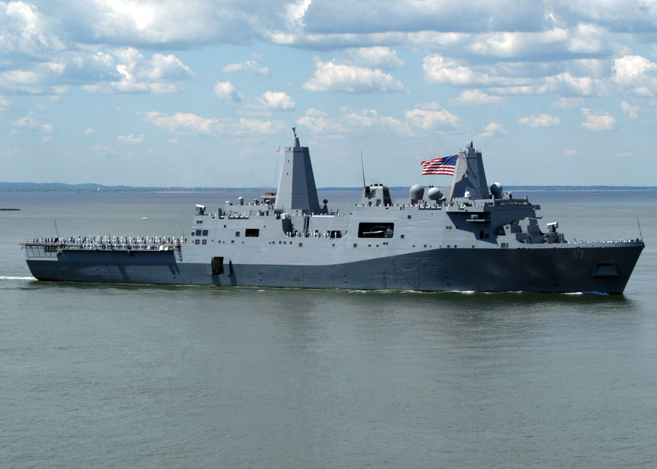 060524-N-7365V-032 New York Harbor - The newest class of Amphibious Transport Dock ship USS San Antonio (LPD 17) passes the amphibious assault ship USS Kearsarge (LHD 3) while entering New York Harbor during the parade of ships, Fleet New York Week 2006. Fleet Week has been sponsored by New York City since 1984 in celebration of the United States sea service. The annual event also provides an opportunity for citizens of New York City and the surrounding Tri-State area to meet Sailors, and Marines, as well as witness first hand the latest capabilities of today's Navy and Marine Corps team. Fleet week includes dozens of military demonstrations and displays, including public tours of many of the participating ships.